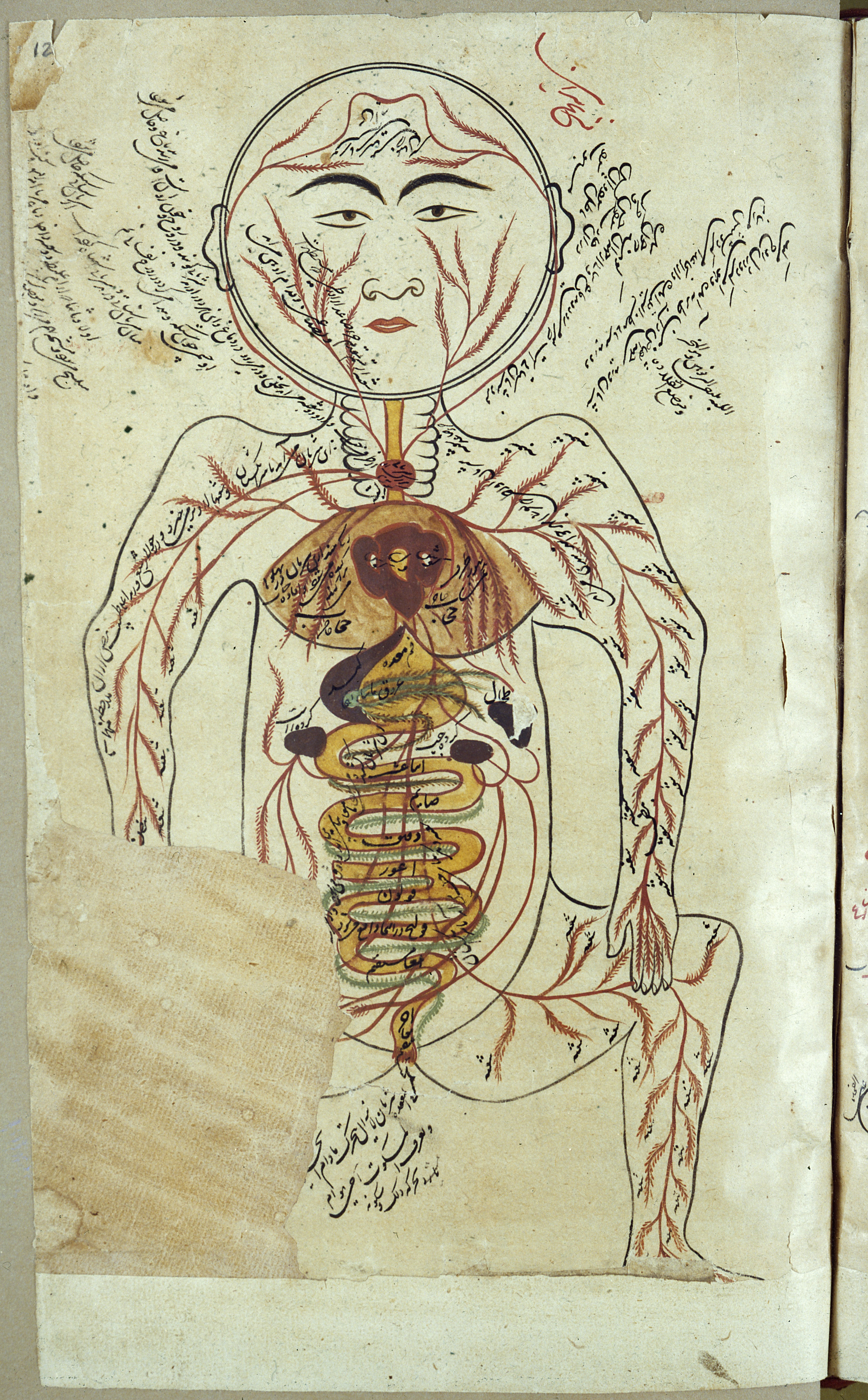 Arteries and Viscera (according to Avicenna) Asian Collection Keywords: anatomy, arabic; Arabic; Islamic; Persian; Medicine; Ibn Sina (Avicenna); Middle East; Iraq; Iran